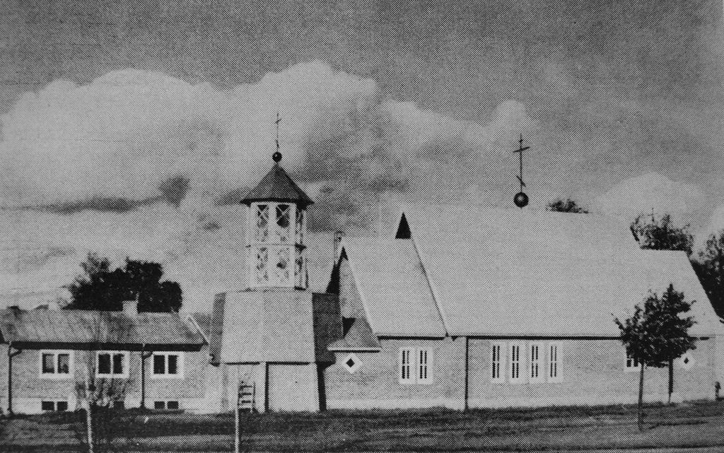 The Holy Trinity Cathedral – the Finnish Orthodox church in Oulu, Finland, in 1958. The church was designed by architect Mikko Huhtela and completed in 1957.